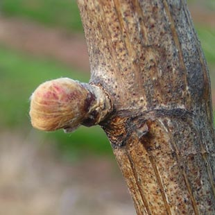 A bud of Vitis vinifera (Grape Vine)